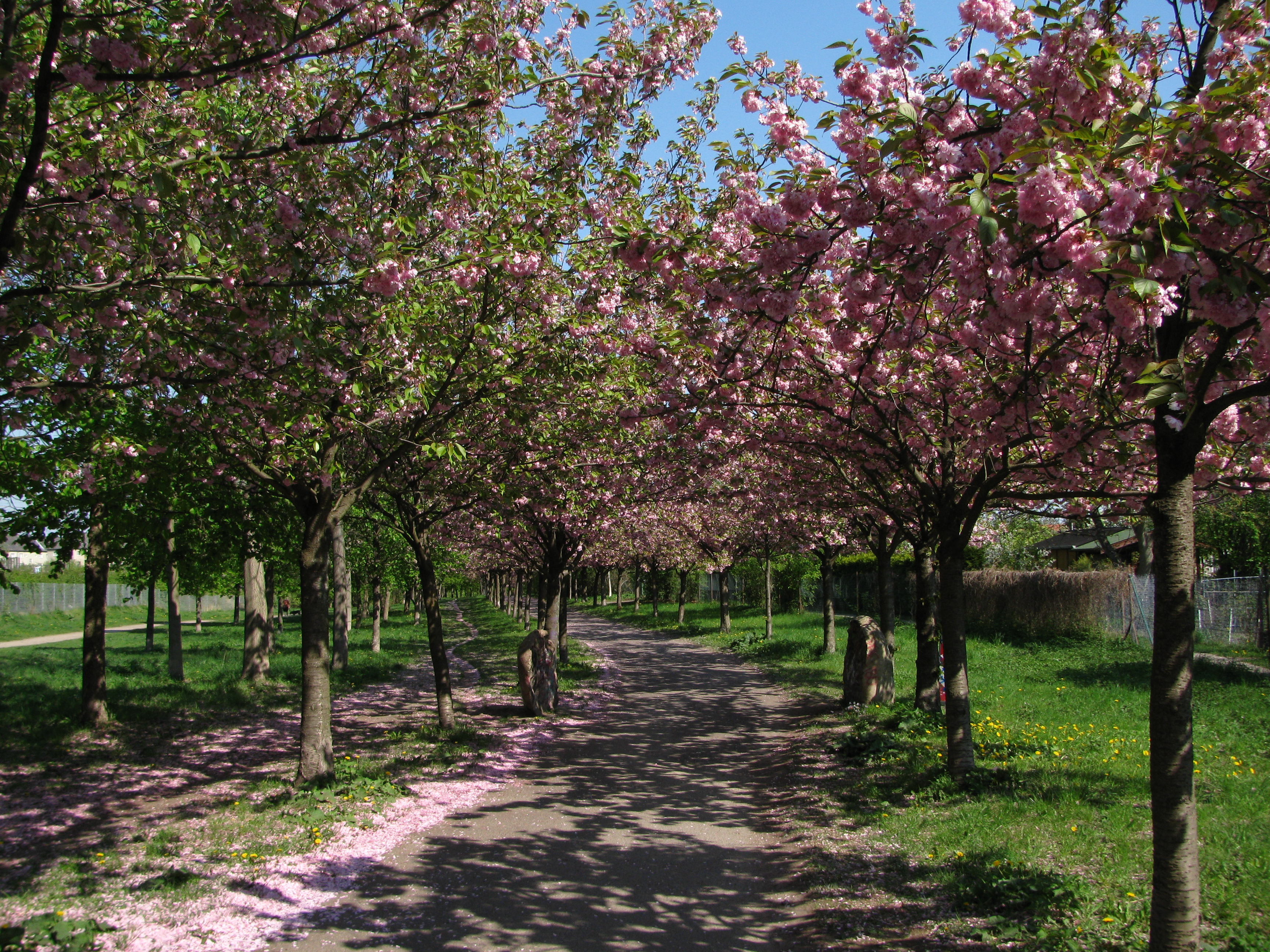 Japanese Cherry alley, Berlin Wall Trail, near former Bornholmer Strasse border crossing, Berlin, Germany